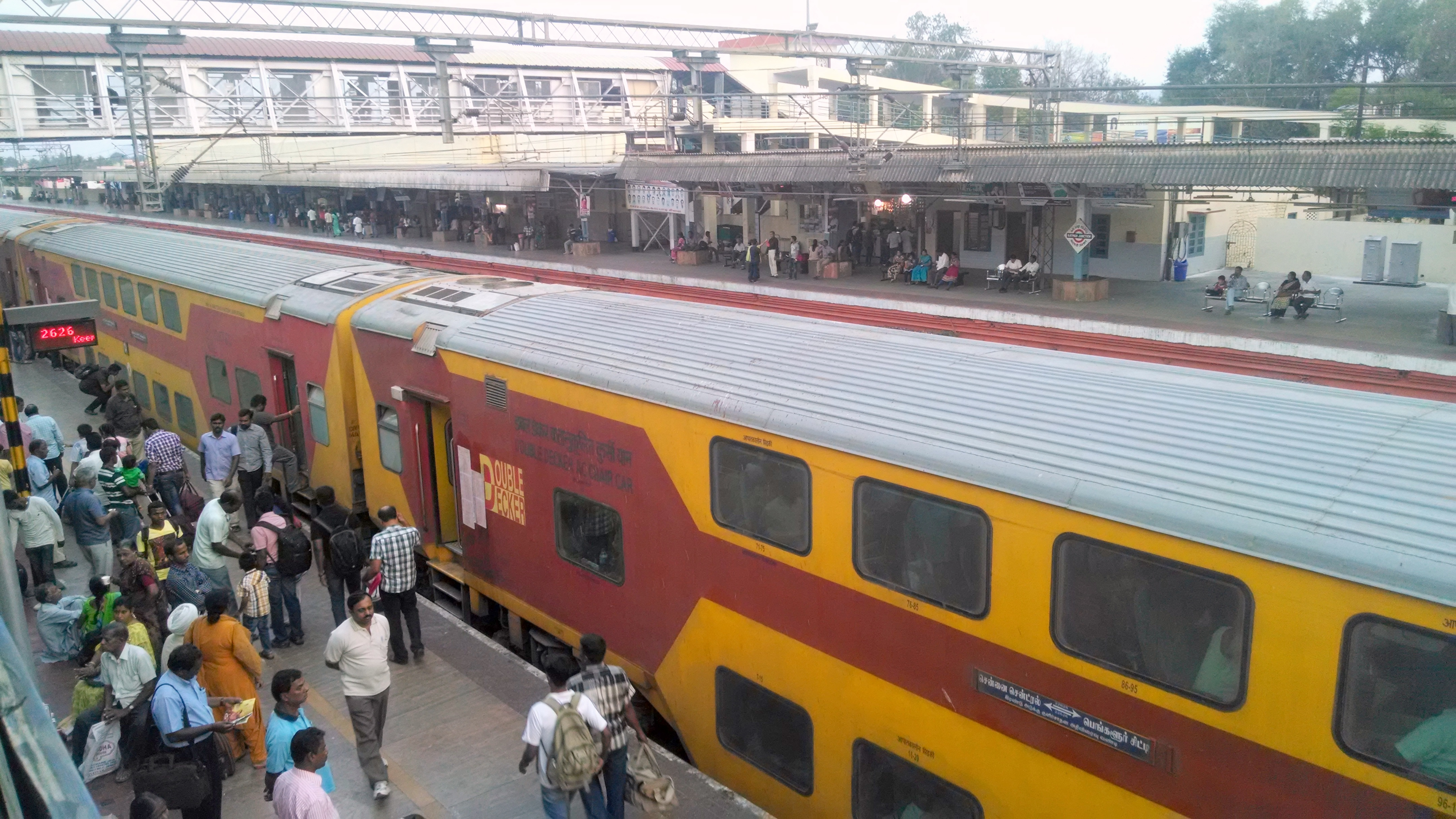 Chennai - Bangalore AC Double Decker Express at Vellore